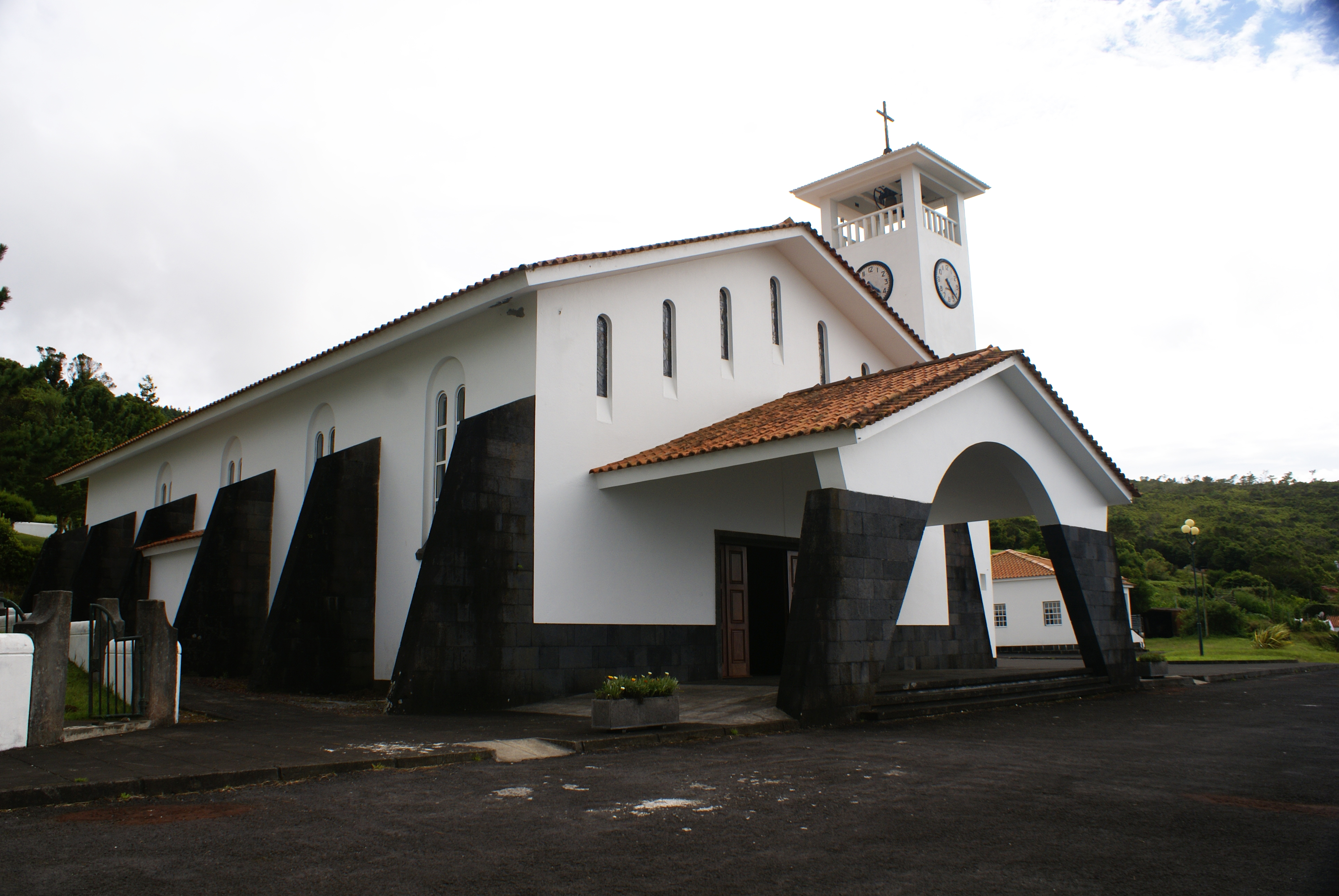 Front façade of the Church of Nossa Senhora das Dores, Praia do Norte, Horta, Faial (Azores), Portugal